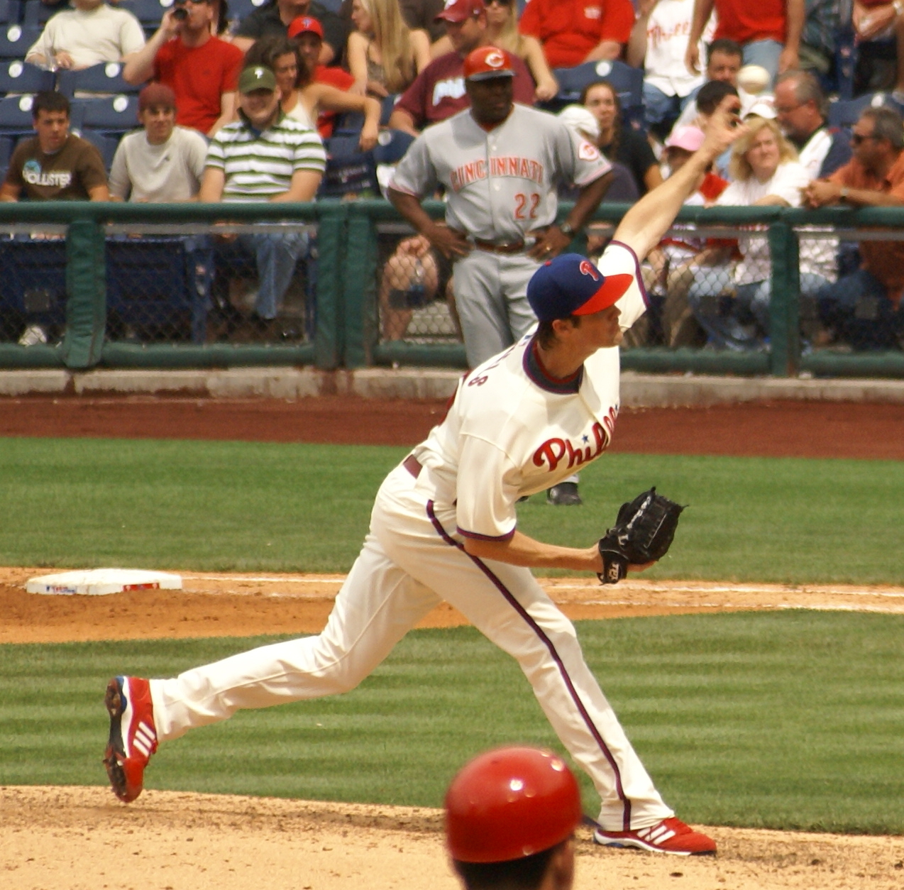 Description Cole Hamels pitching a complete game shutout versus the Cincinnati Reds Date06/05/08SourceI created this work entirely by myself.AuthorBlevine37 (talk) 03:35, 11 June 2008 . . Blevine37 . . 1,274×1,254 (1.19 MB) Cole Hamels pitching a complete game shutout versus the Cincinnati Reds